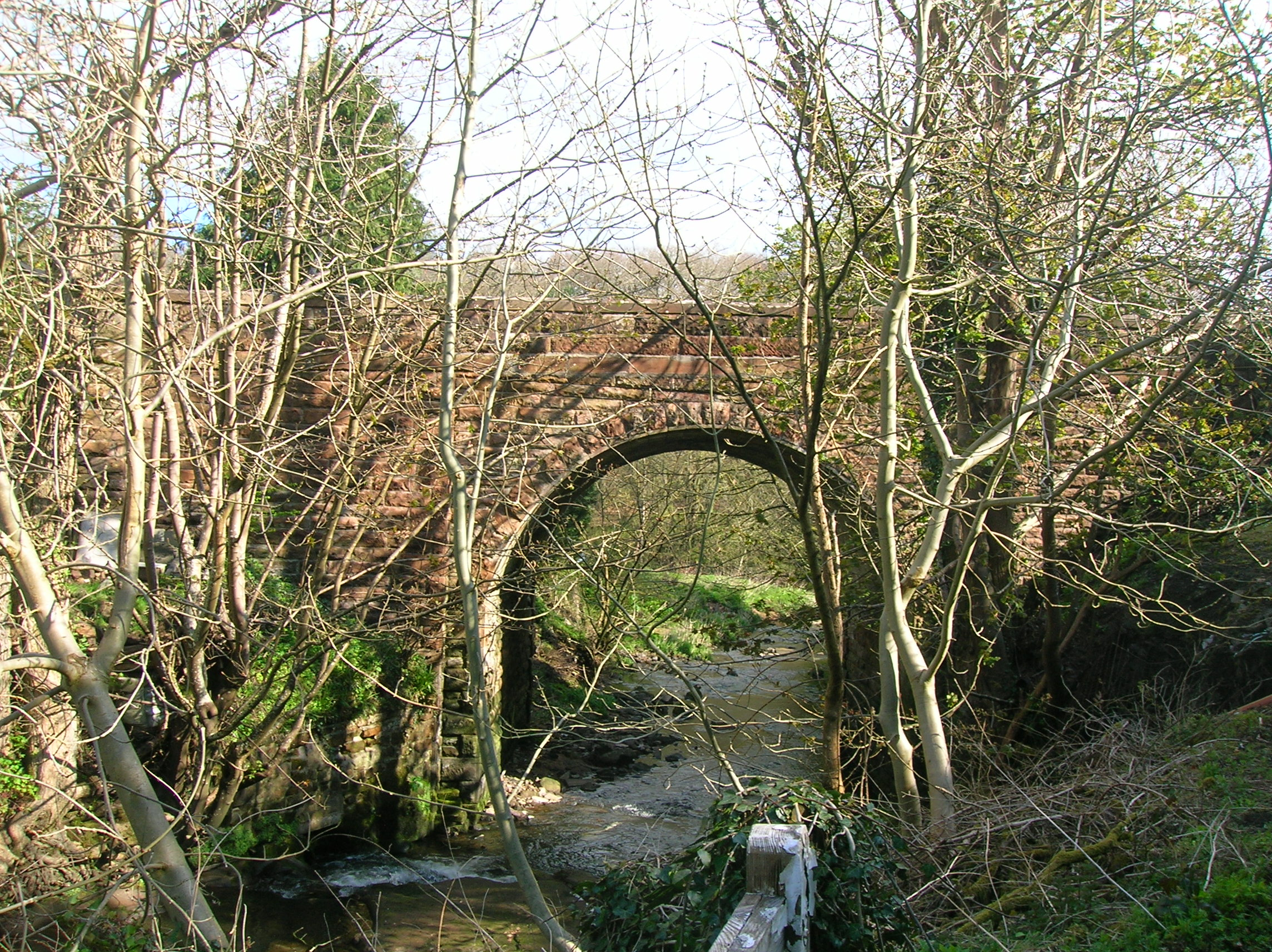 Bridge over the Water of Fail at Failford, South Ayrshire, Scotland.